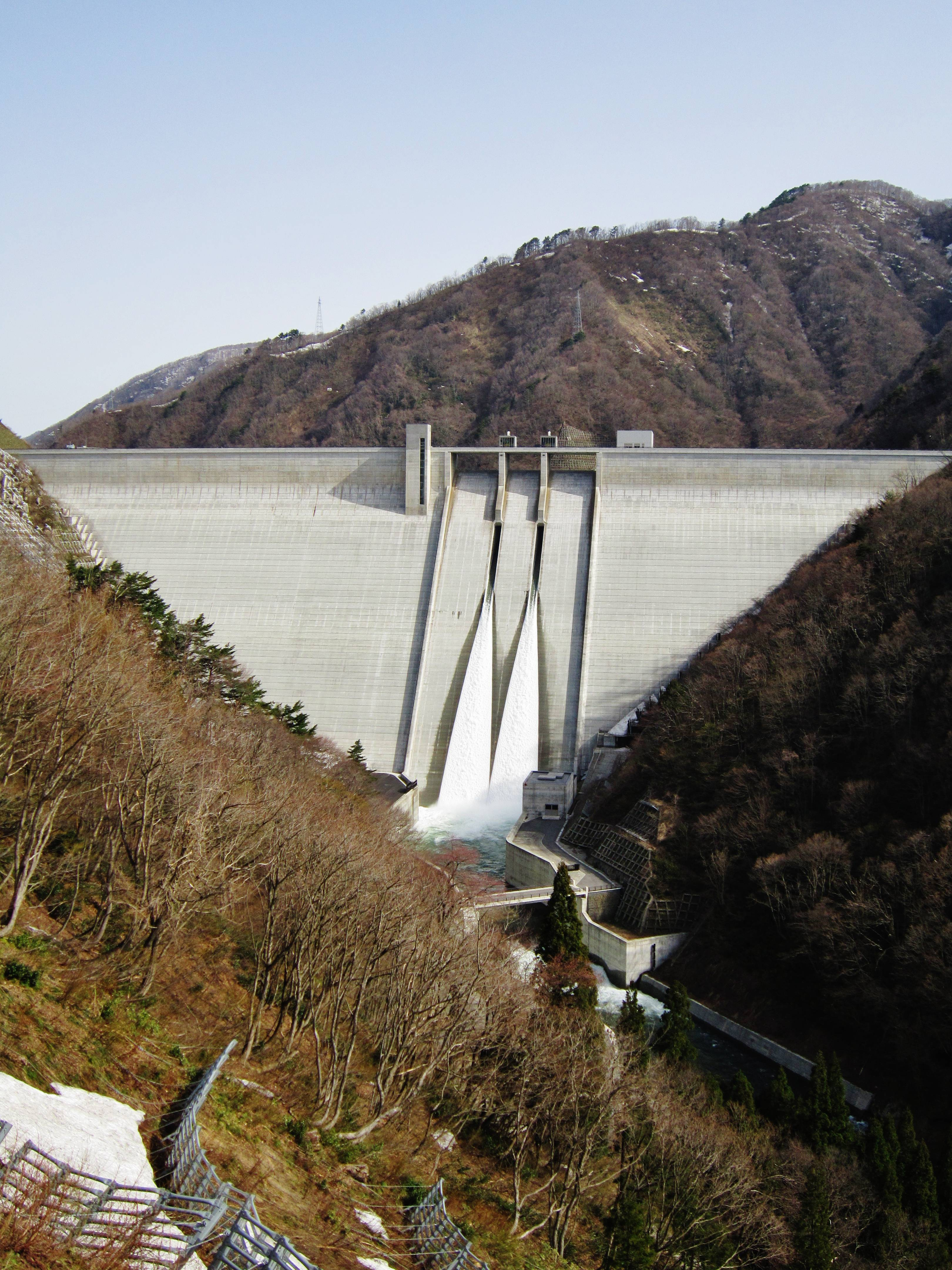 Nagai Dam.